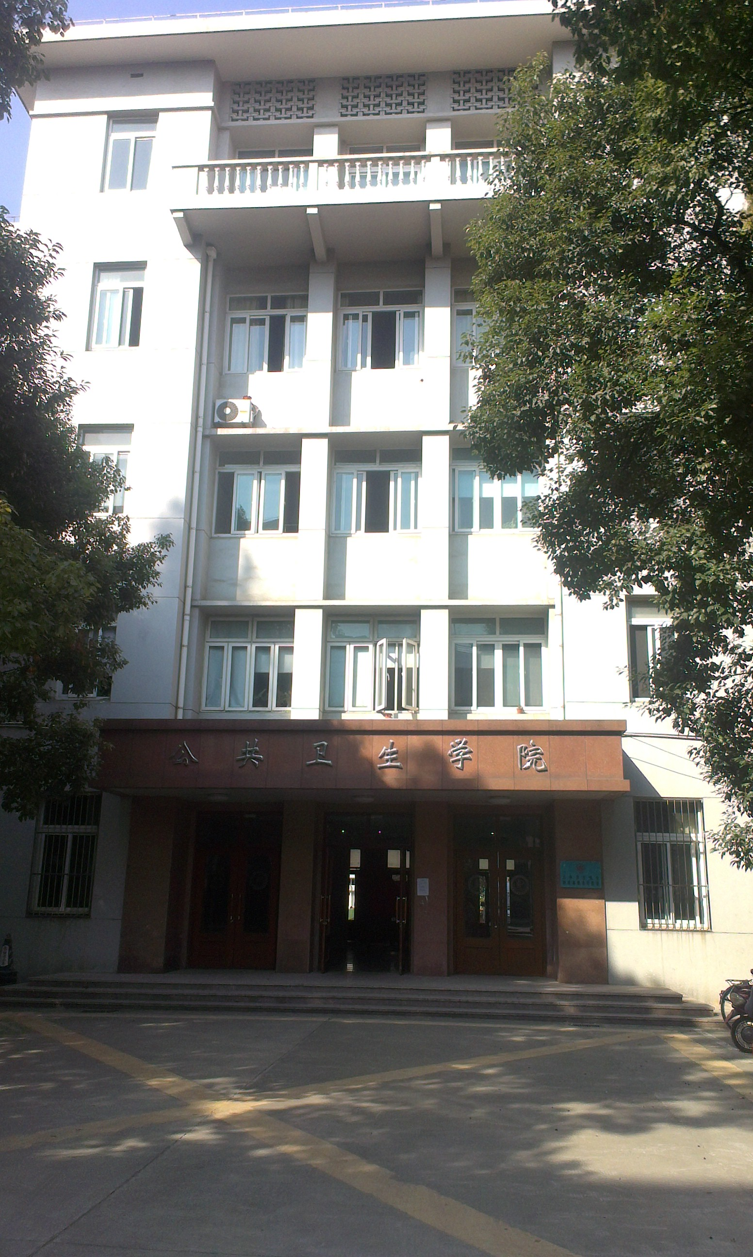 School of Public Health, Fudan University. Building 8, West Garden, Fenglin Campus.